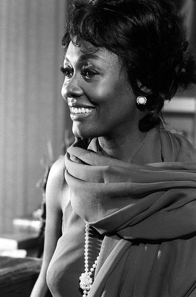 A profile shot of the beautiful Shirley Verrett, the US mezzo-soprano and soprano, recently nicknamed by Italian public the black Callas for her brilliant performance of Lady Macbeth at the Scala Theatre. Milan (Italy), 1975.